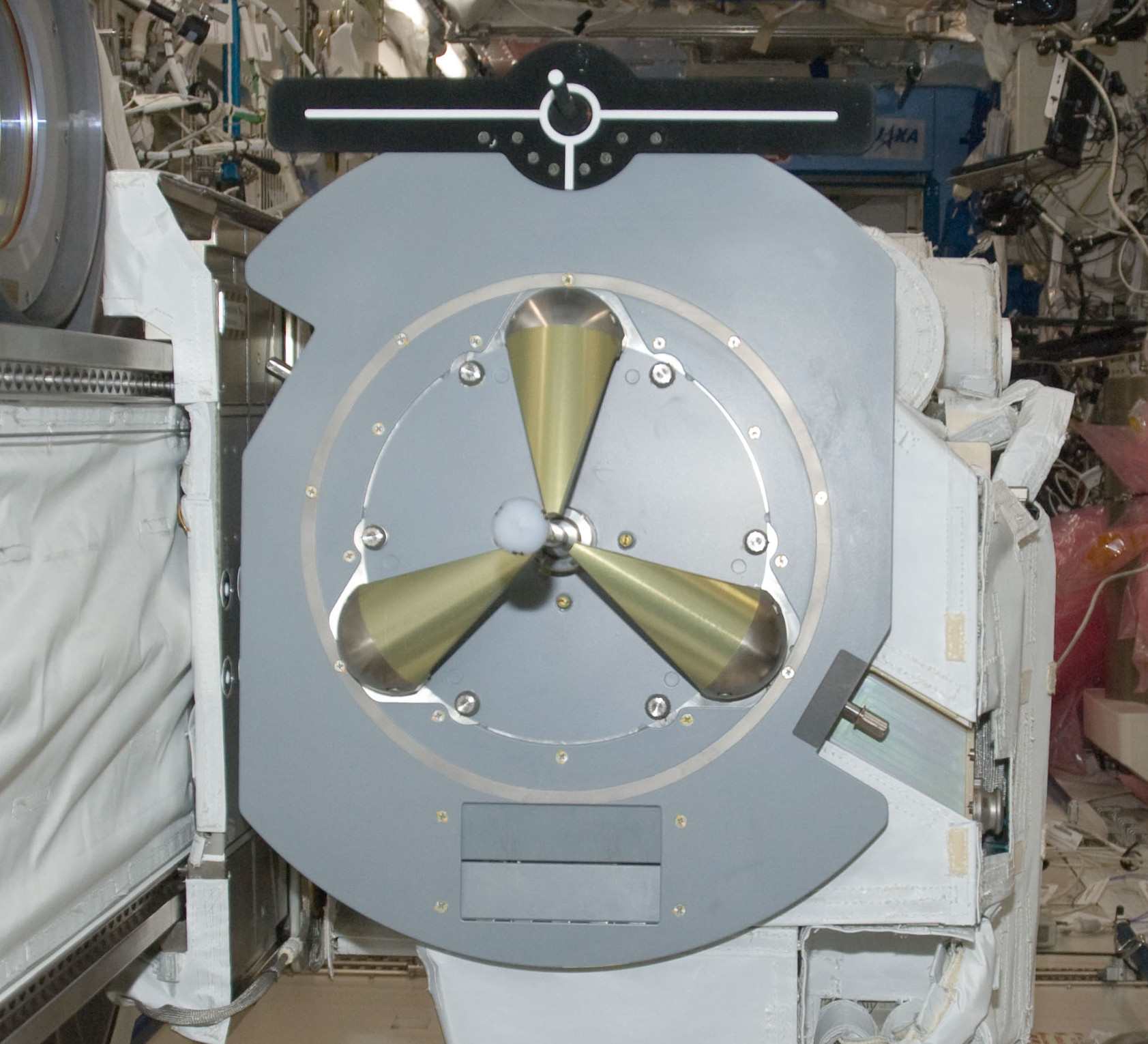 None.